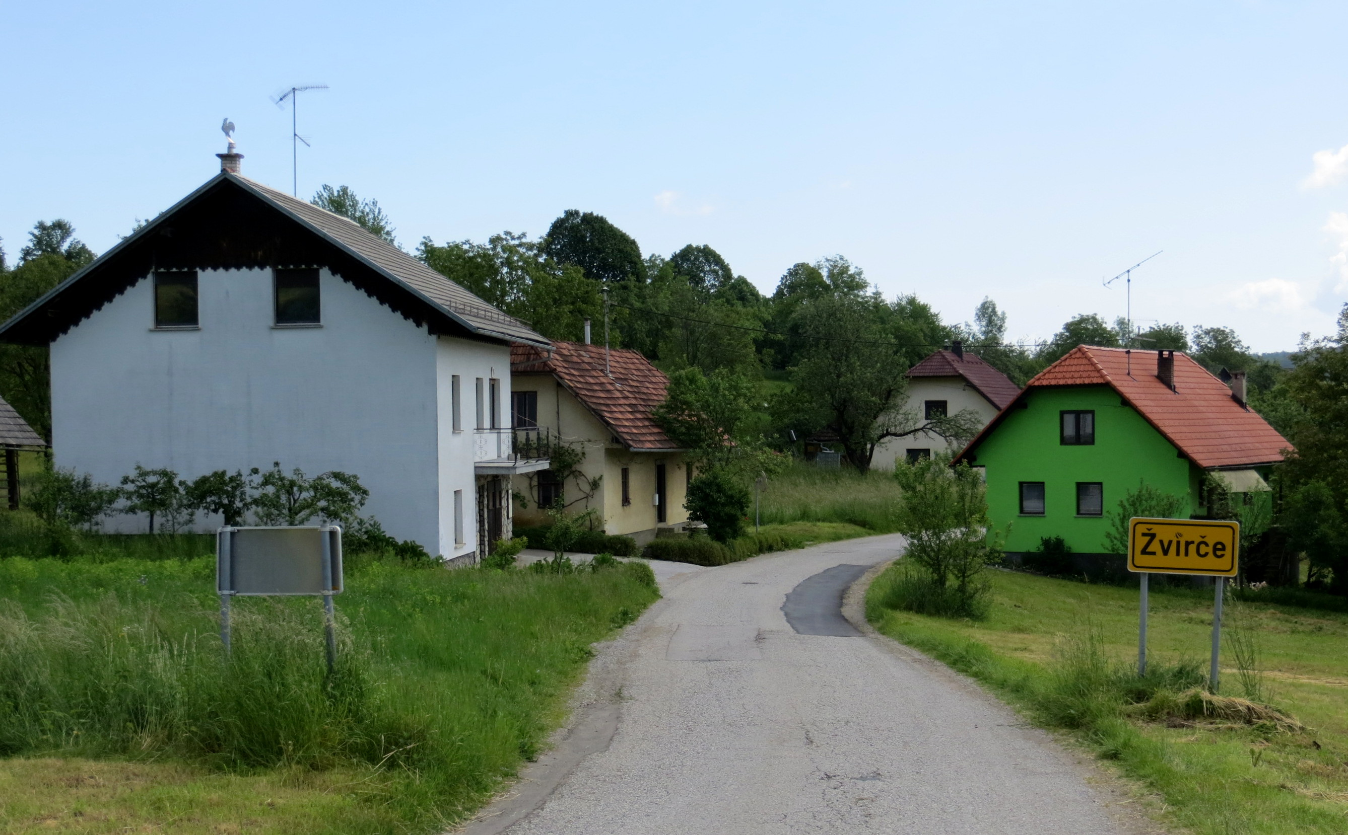 Žvirče, Municipality of Žužemberk, Slovenia